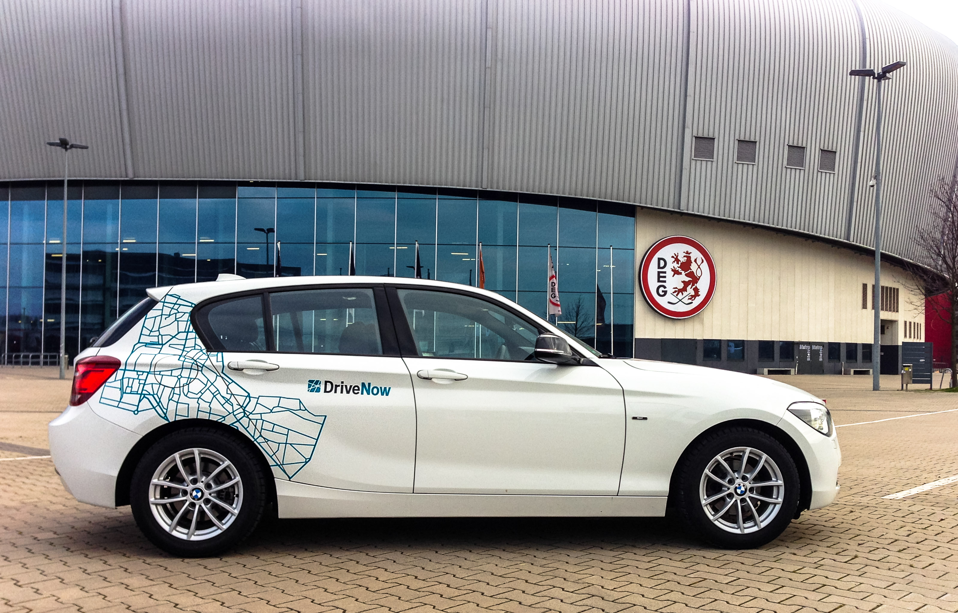 DriveNow BMW 1 series